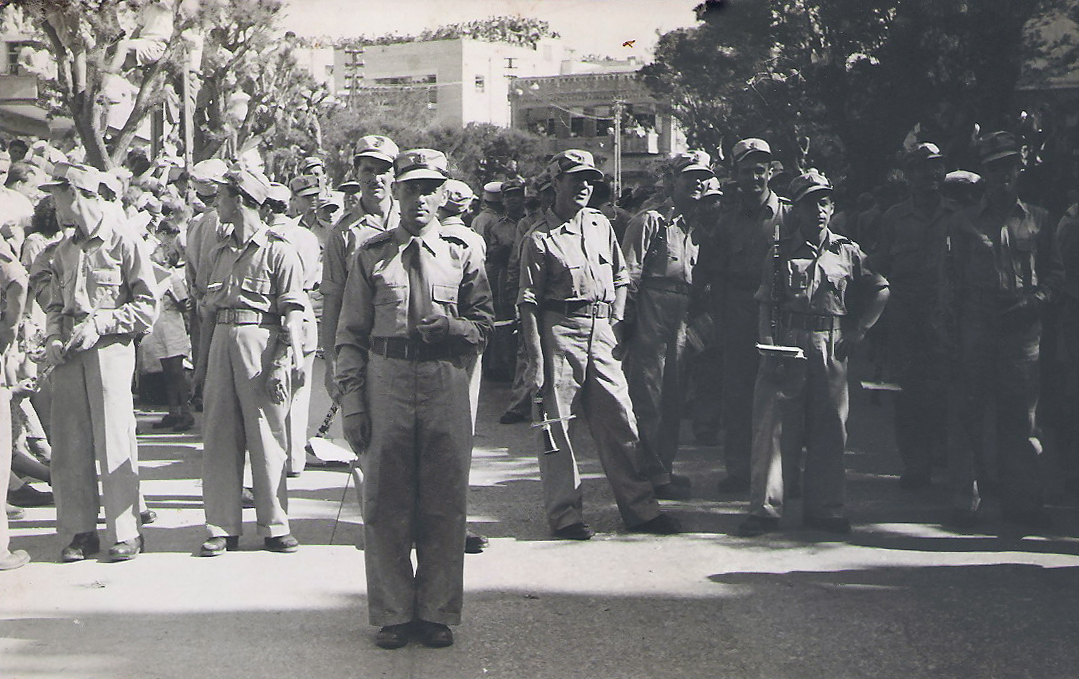 The Israeli Defense Forces (IDF) first Independence March in May 4th 1949 in the streets of Tel-Aviv was blocked by the crowd. The picture shows the IDF Band getting ready to march.